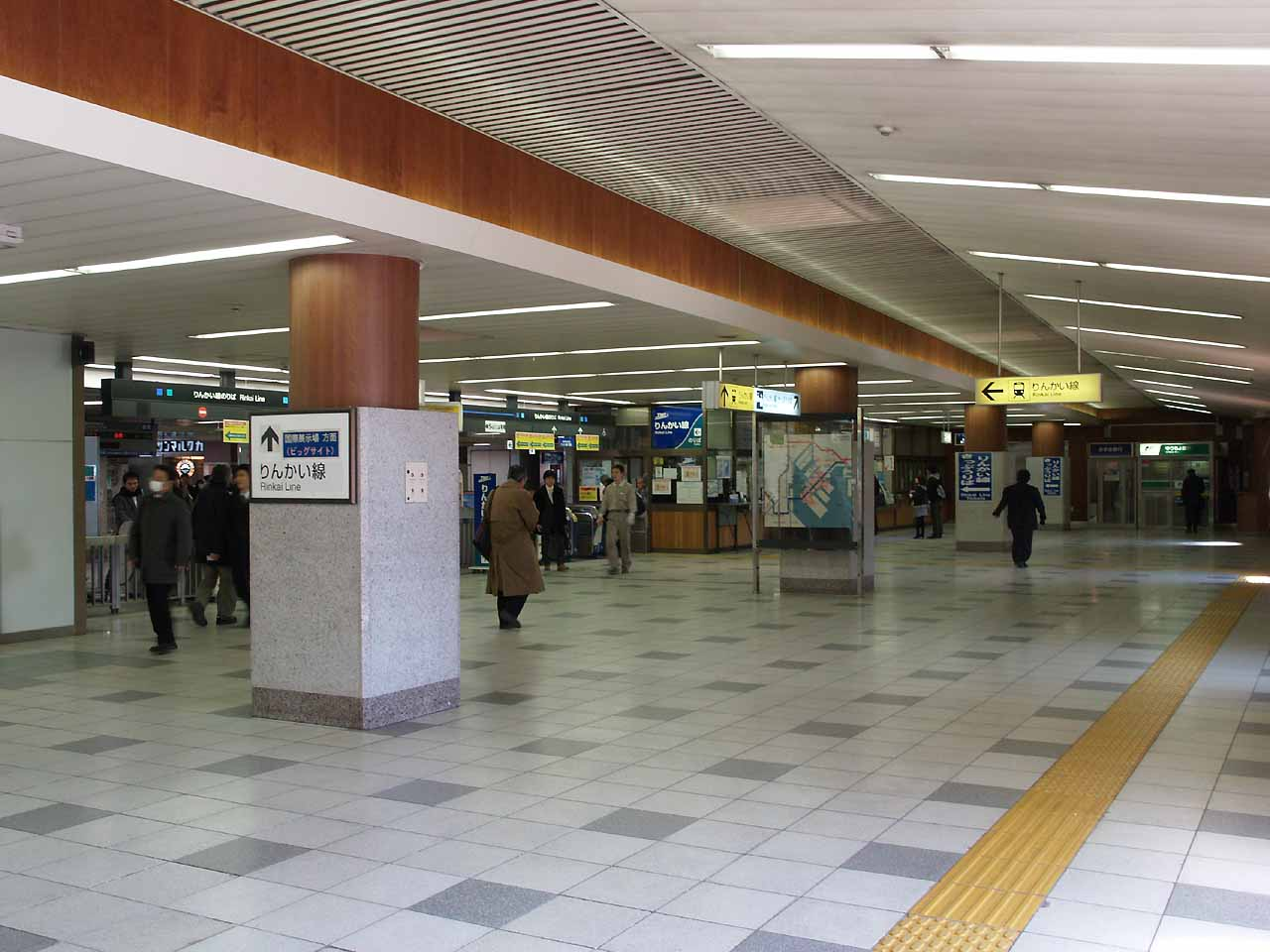 Concourse of Tokyo Waterfront Area Rapid Transit Shin-kiba station.